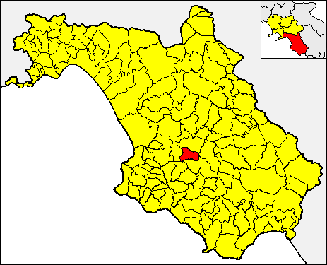 Locator map of the municipality of Magliano Vetere (red) within the Province of Salerno